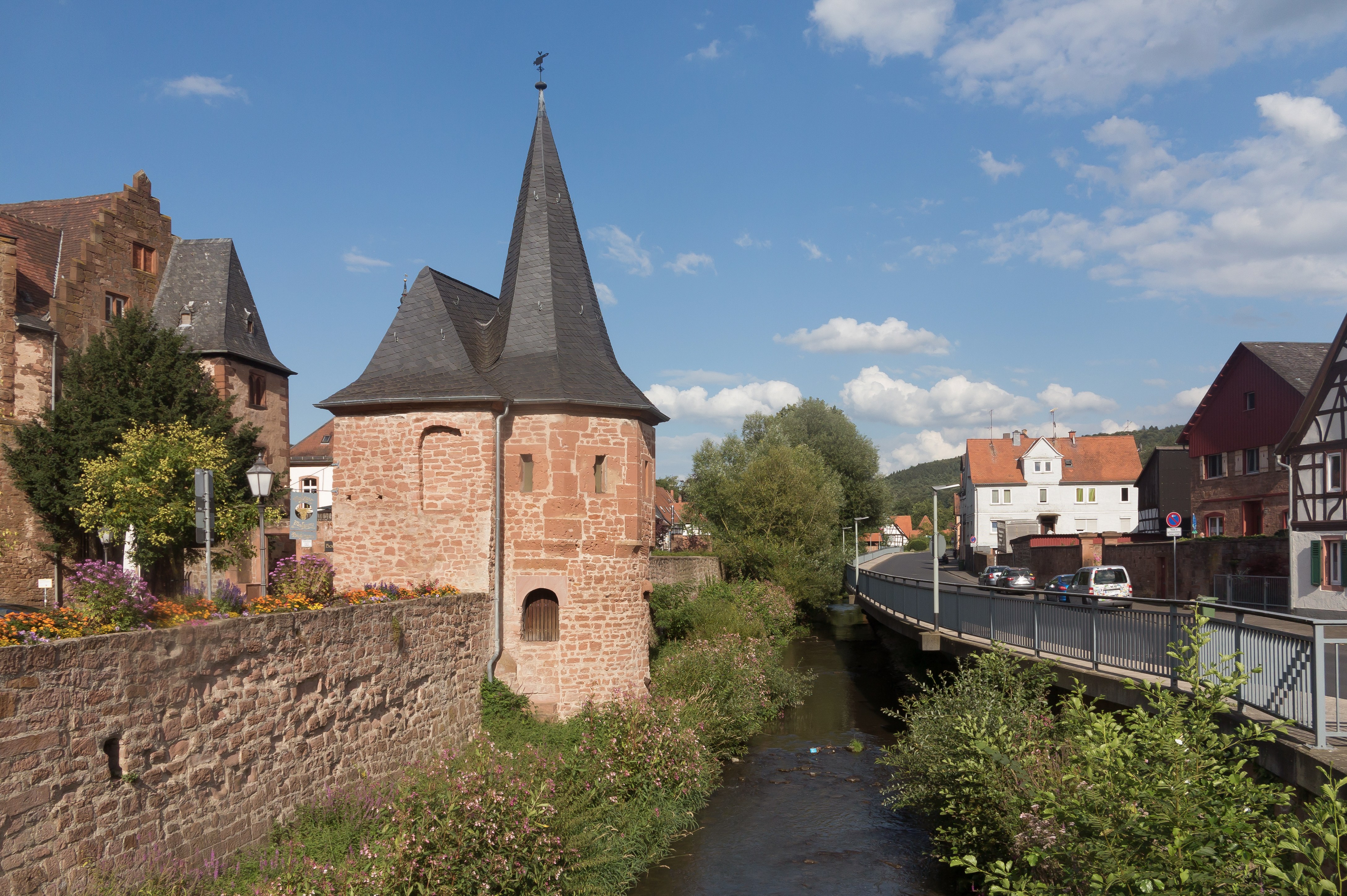 Büdingen, monumental building (das Schlaghaus) in the street